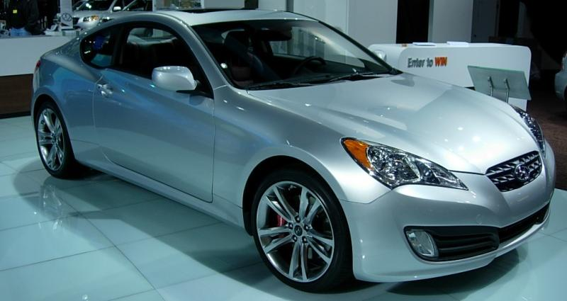 Hyundai Genesis at the NYIAS